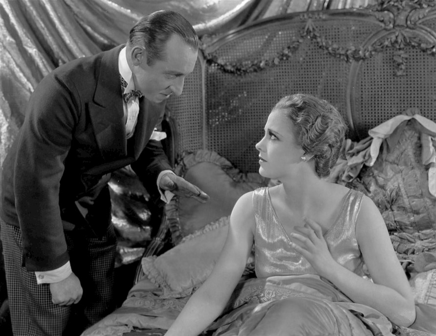 Photo of Raymond Hatton and Esther Ralston in the 1927 film Fashions for Women.